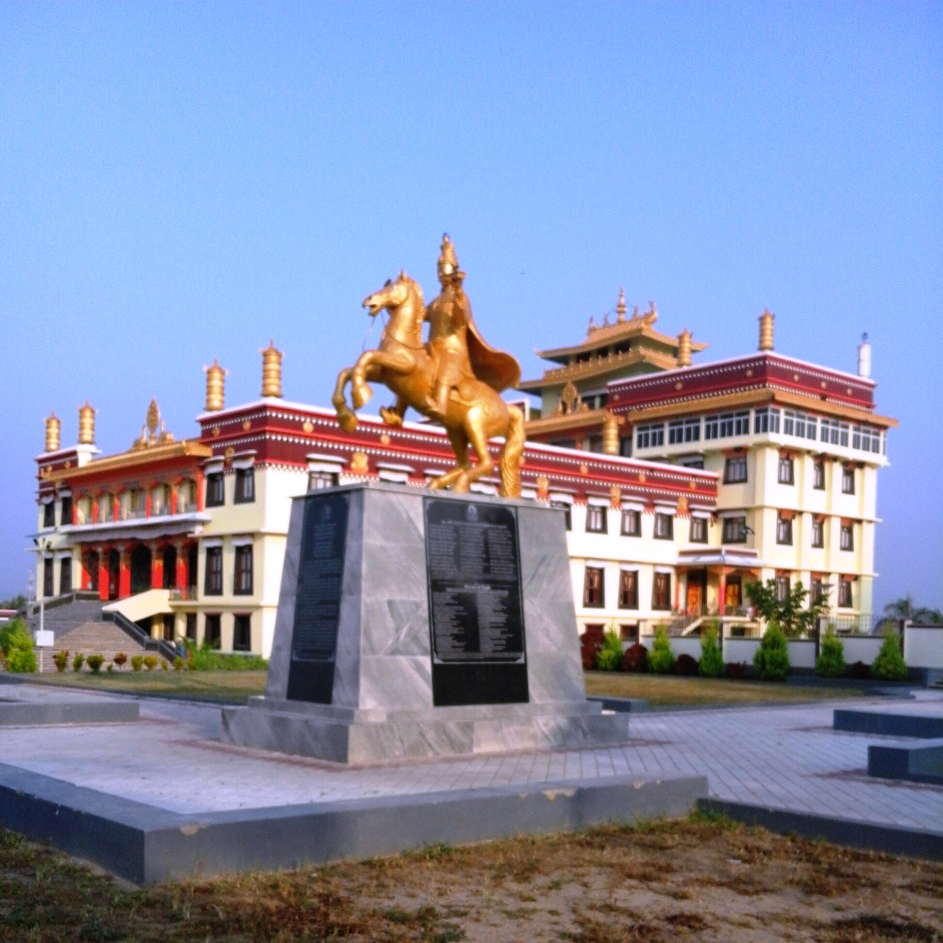 Bylakuppe, Mysore district, Karnataka state, India.